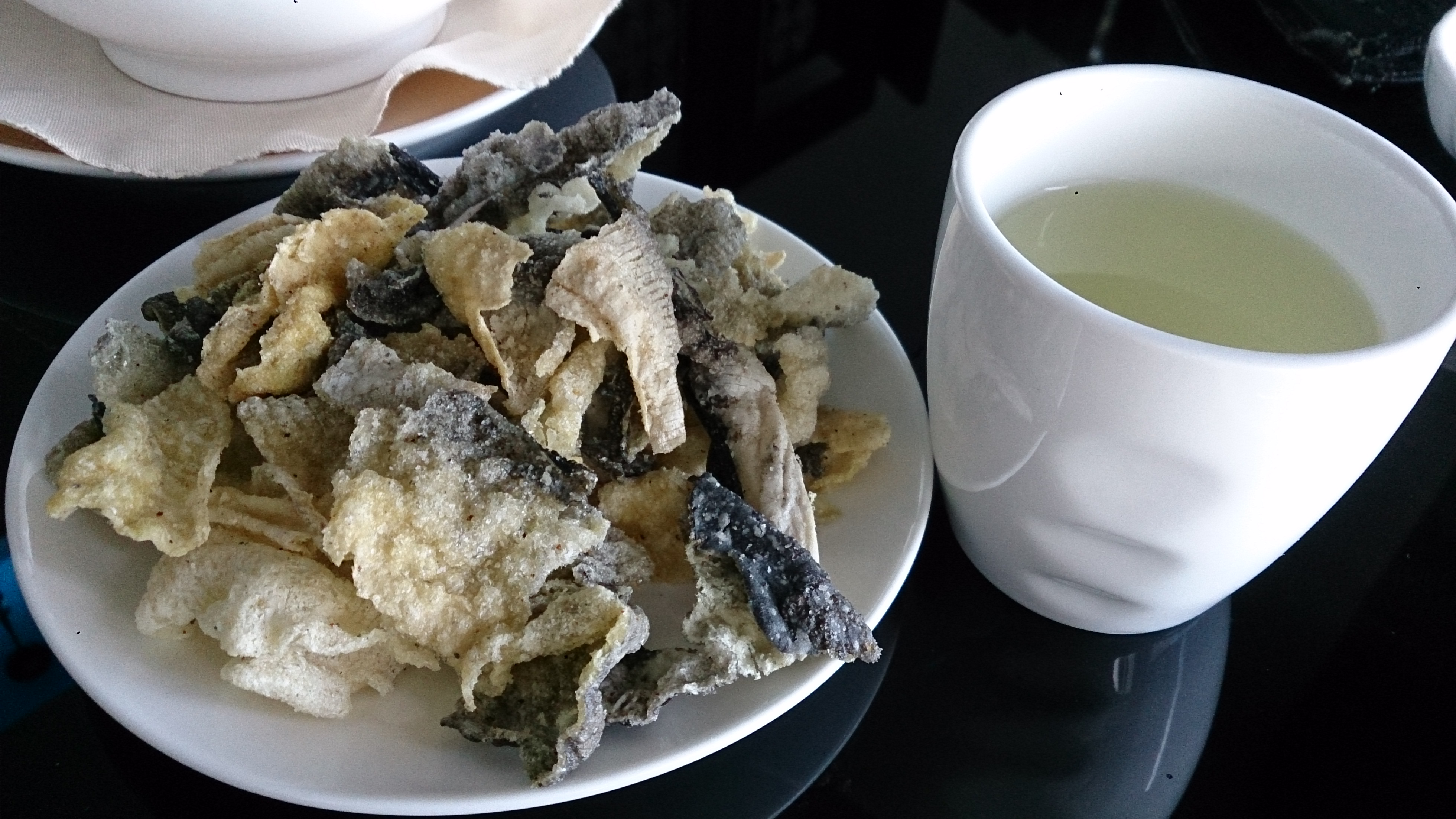 Fried fish skin with salt. Very yummy